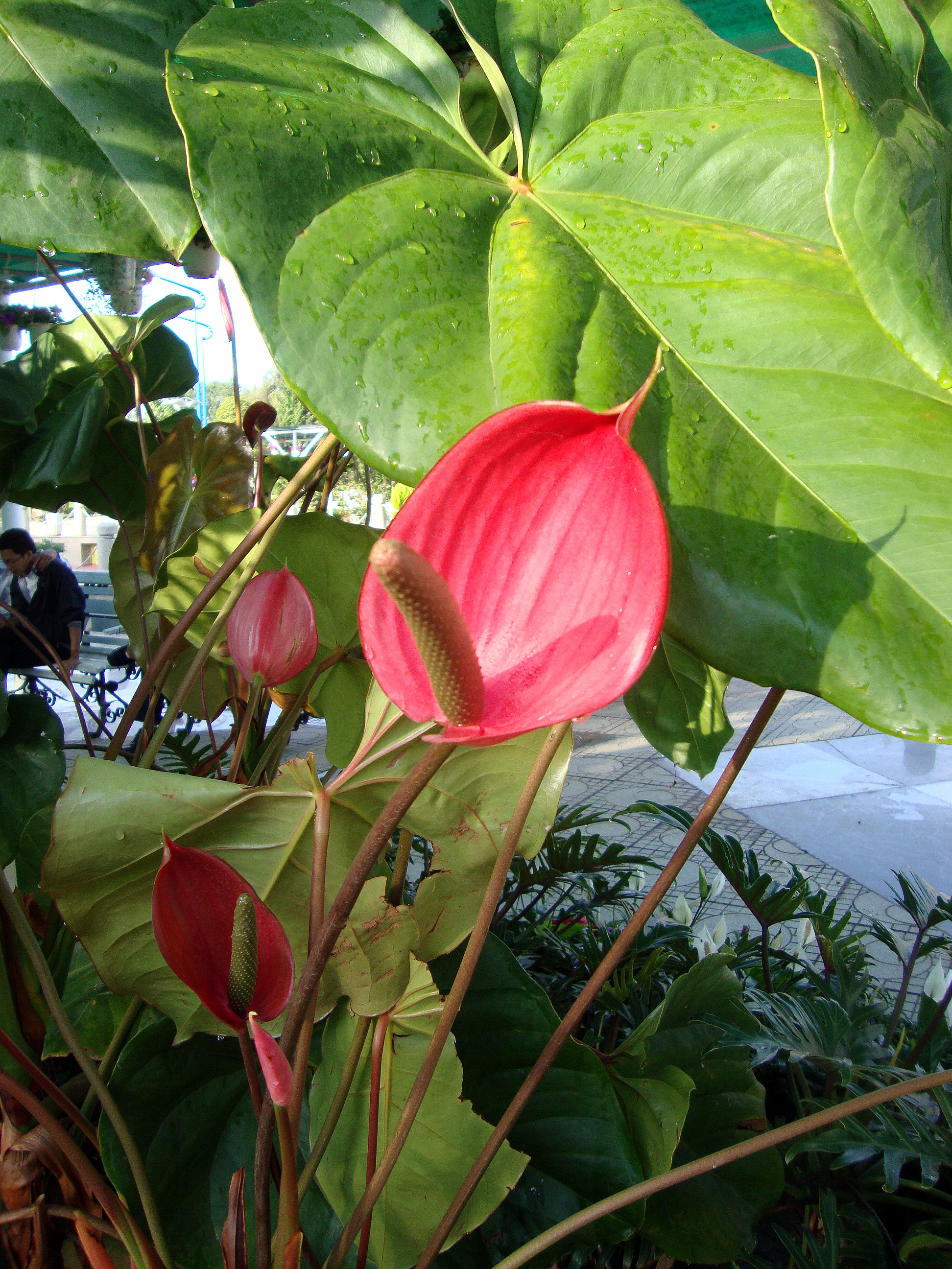 Anthurium andraeanum Linden ex André, 1877